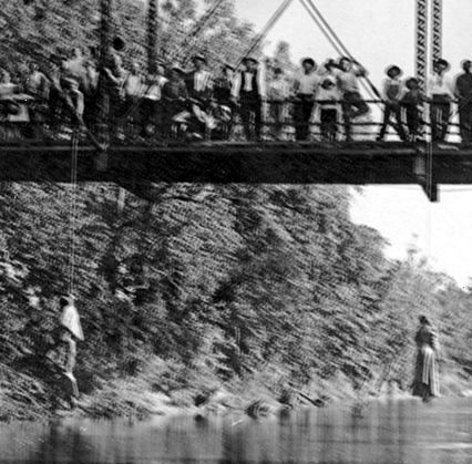 The lynching of Laura and Lawrence Nelson on 25 May 1911 in Okemah, Oklahoma.